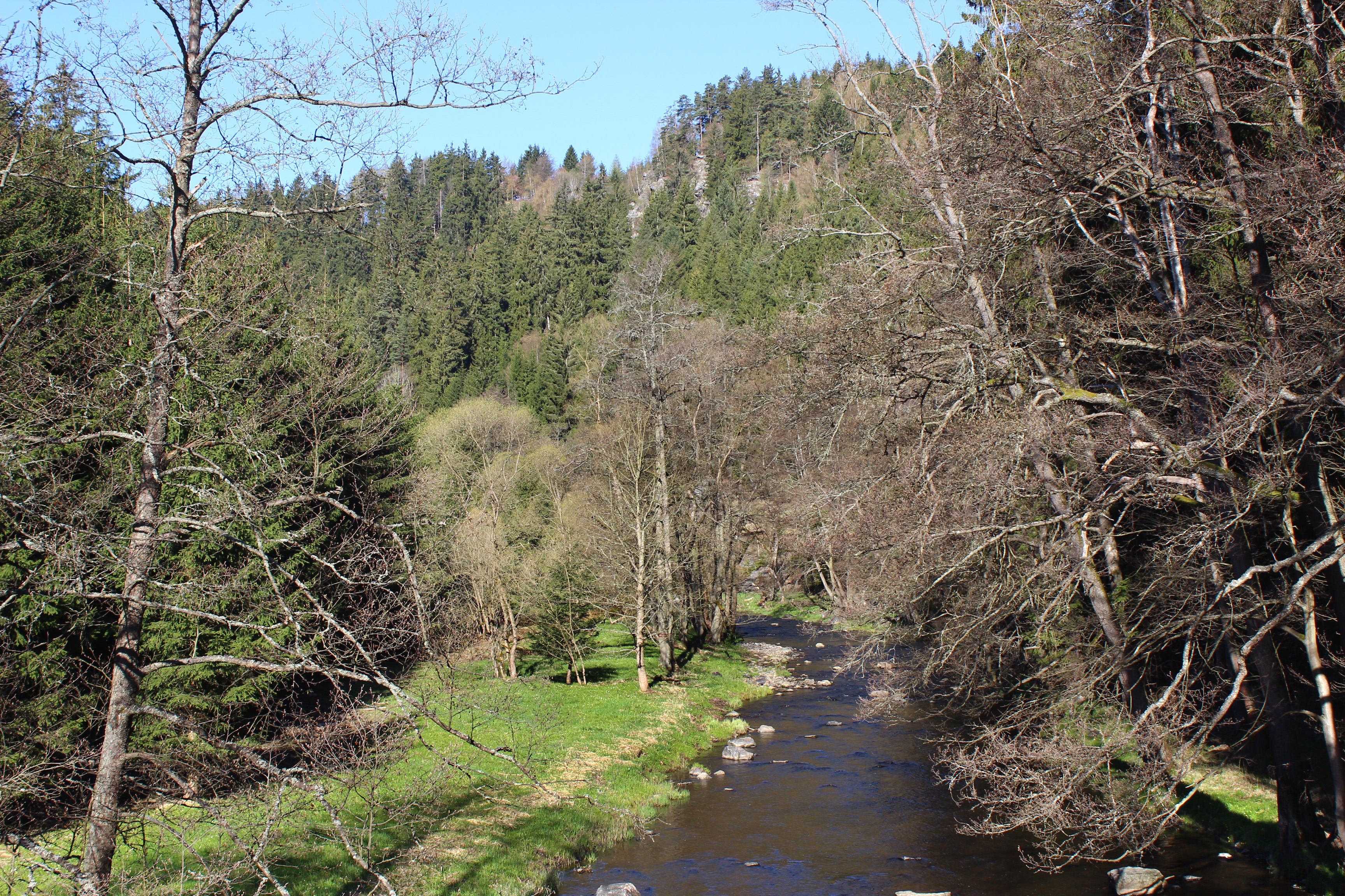 Teplá River in Údolí Teplé nature reserve by Bečova nad Teplou, Czech Republic